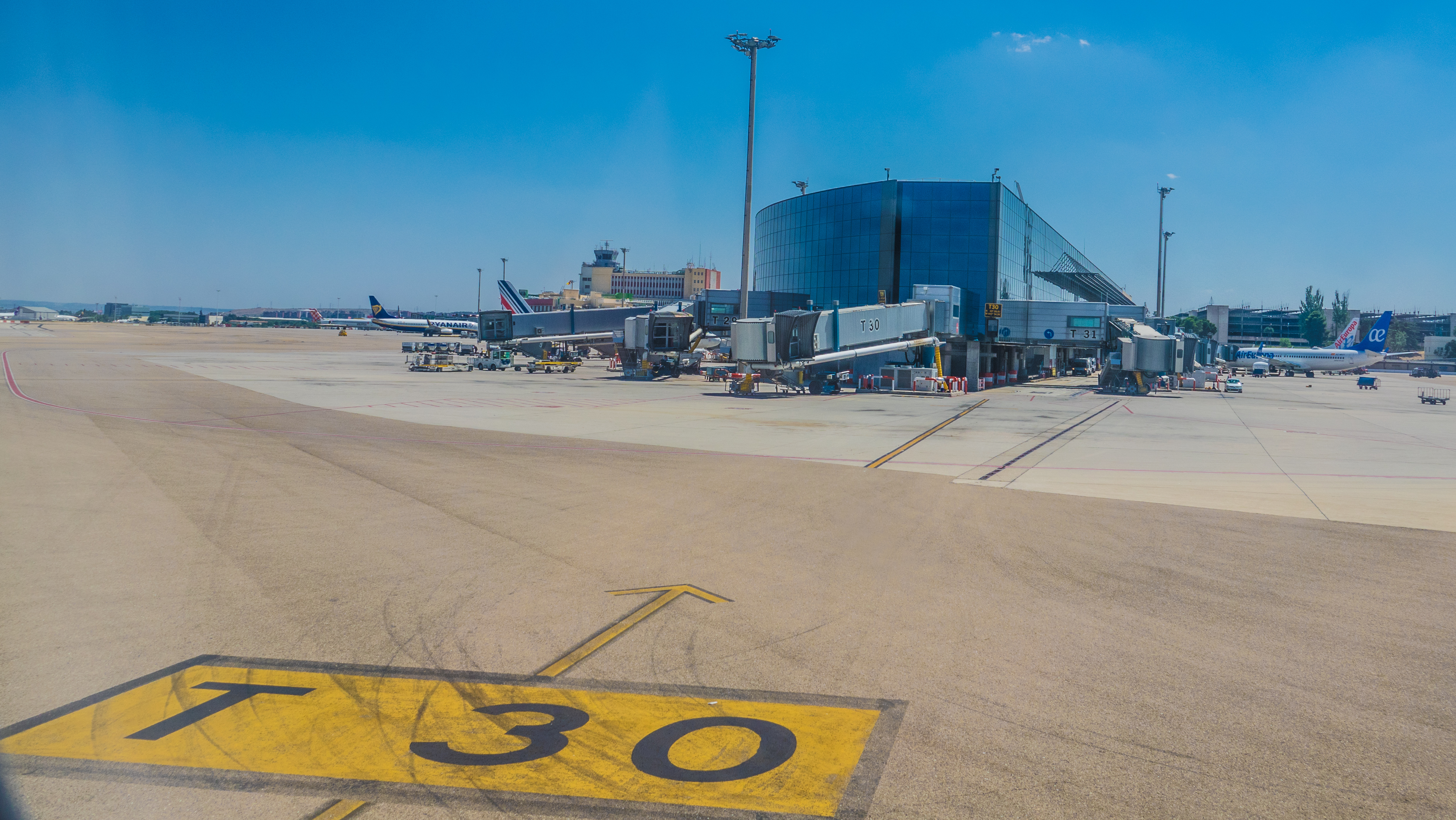 Madrid-Barajas airport Terminal 3 from airside